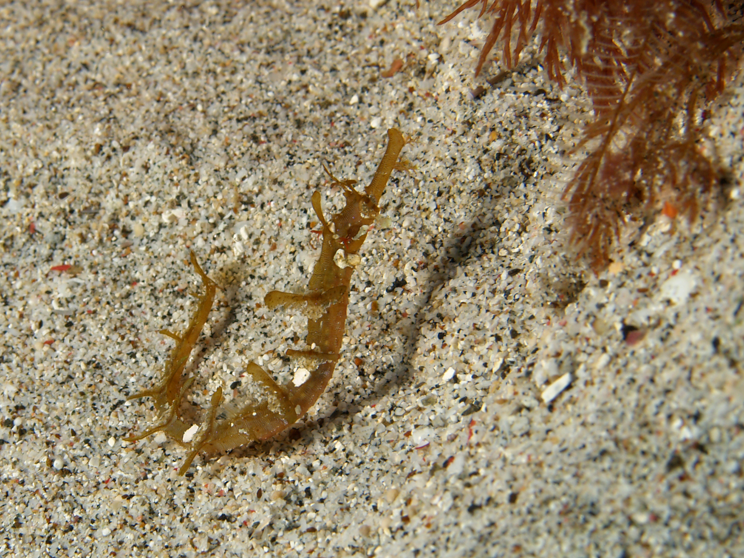 Halicampus macrorhynchus (Winged pipefish) side view